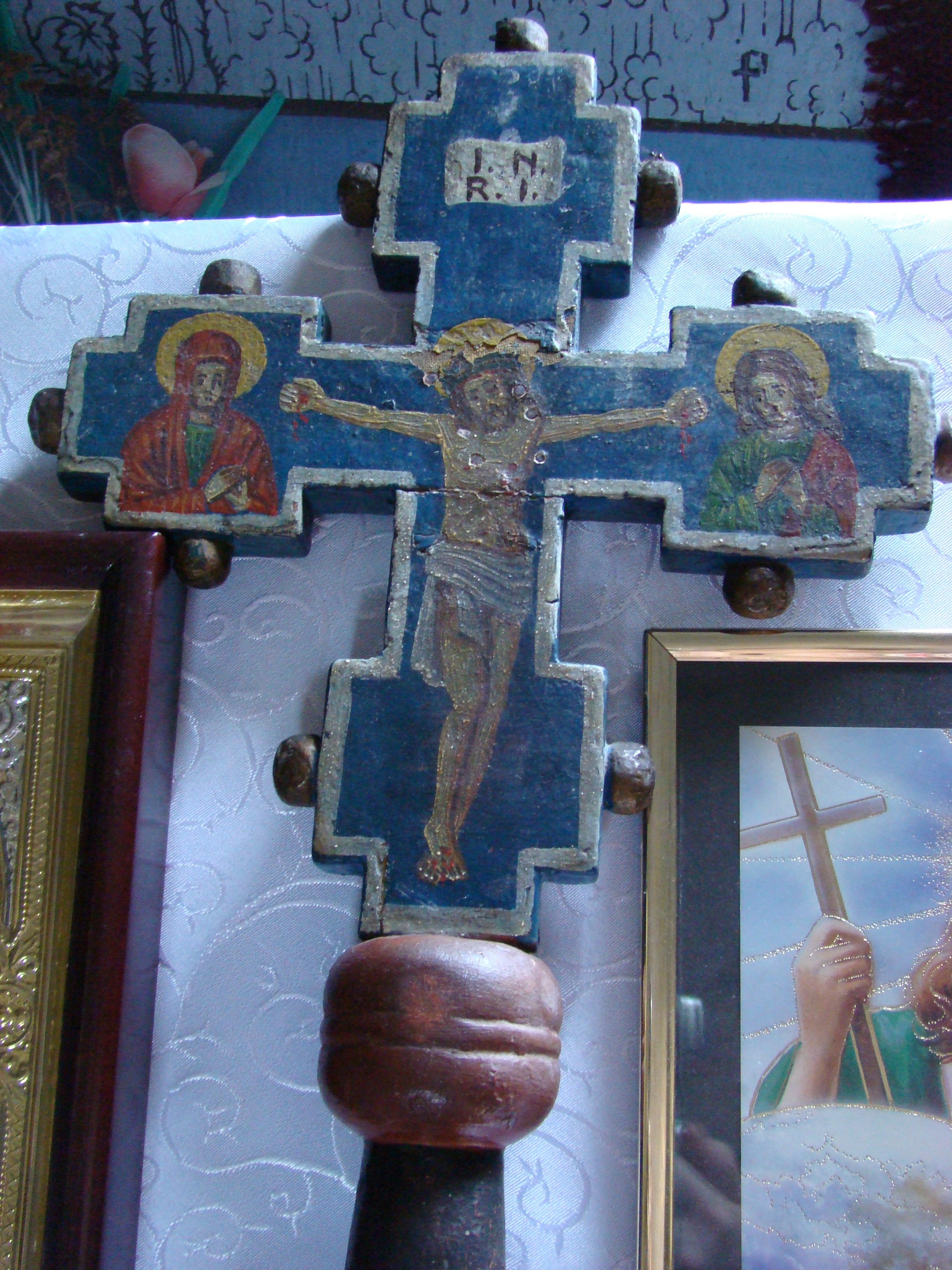 The wooden church in Stoboru, Sălaj county, RomaniaRomână: Cruce veche de lemn pictată